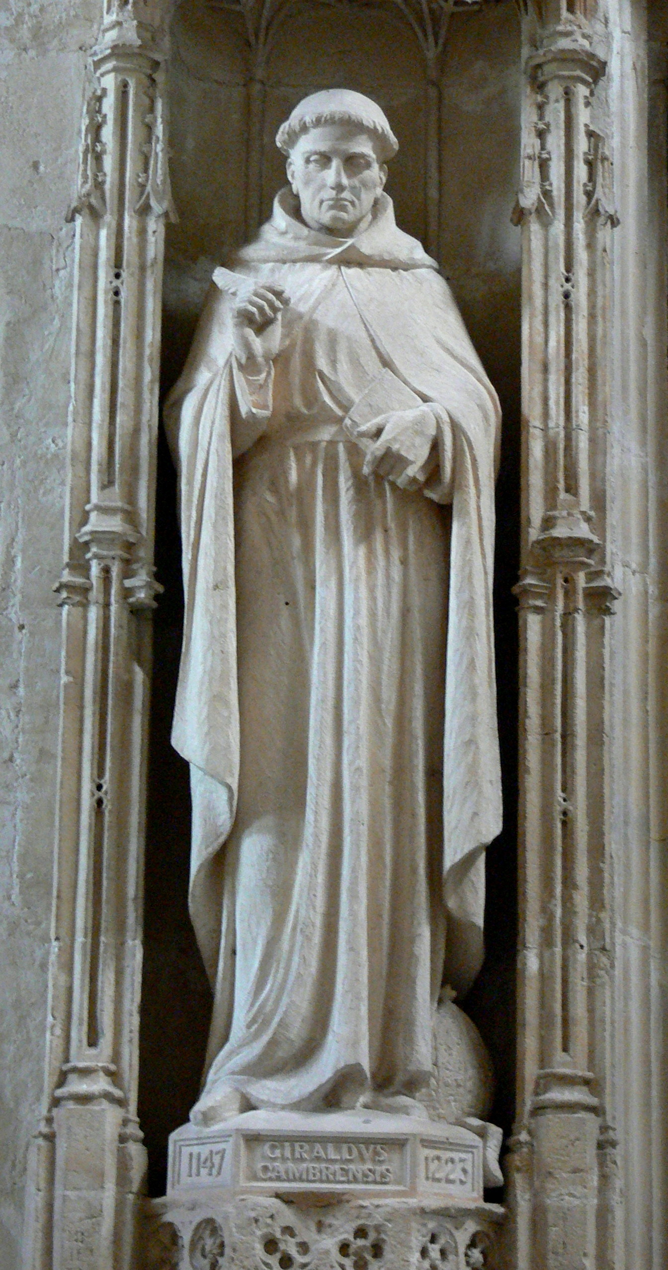 St.David's ( Wales ). Cathedral: Holy Trinity chapel - Statue of Giraldus Cambrensis.